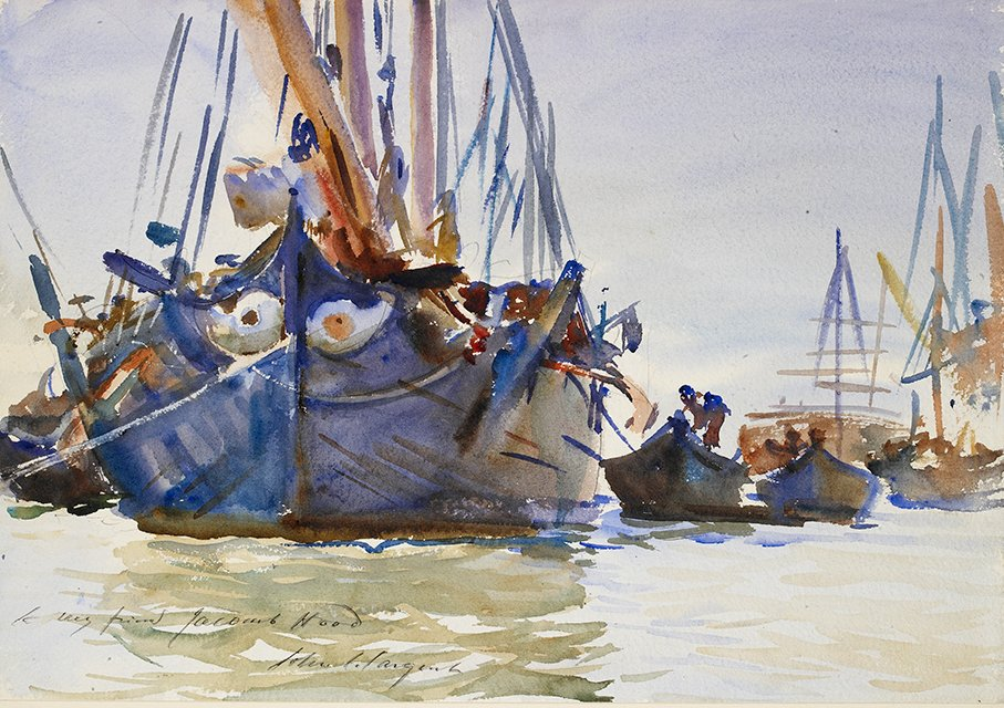 Italian Sailing Vessels at Anchor by John Singer Sargent, c. 1904-07, watercolor on paper, over preliminary pencil, 35.2 x 50.3 cm, The Ashmolean Museum